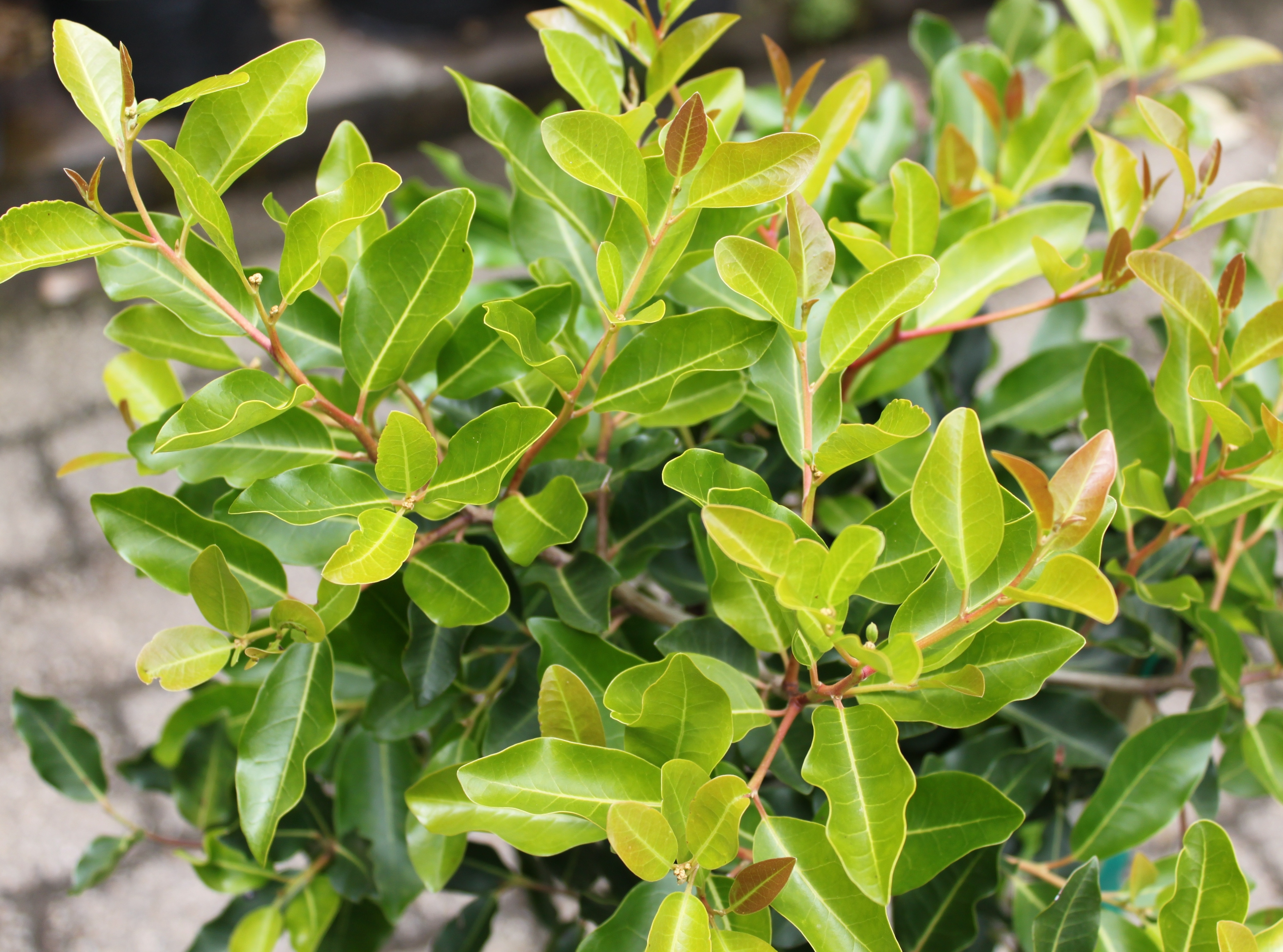 The White Pear tree of South Africa. Juvenile in a nursery.